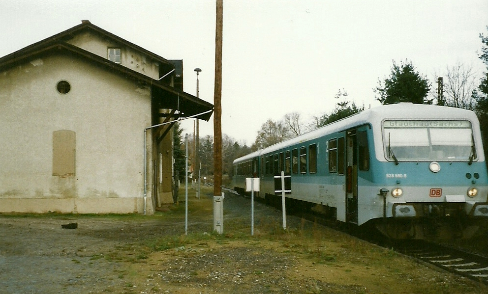 A train from Großbothen to Glauchau at Lastau (Colditz, Leipzig district, Saxony). This railway line has been closed a few days later.